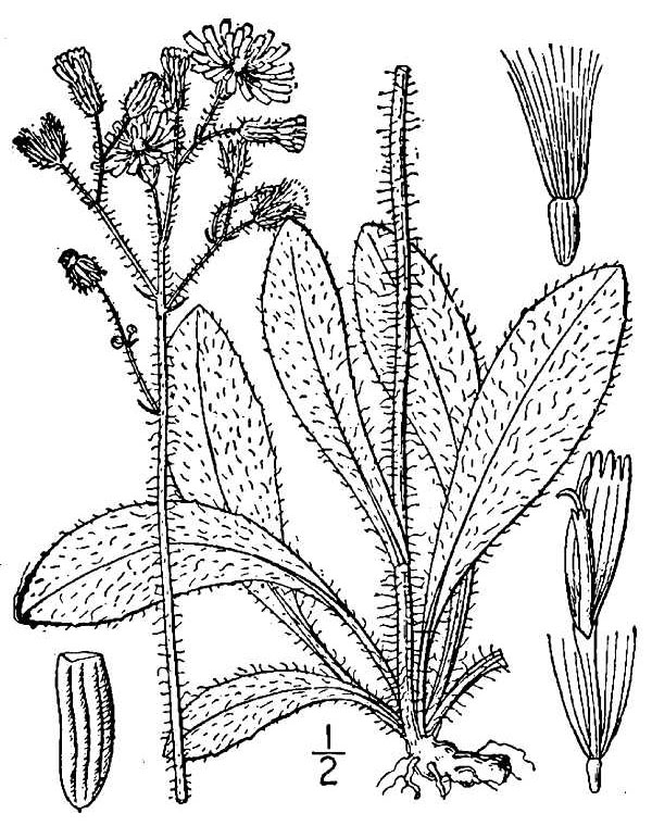 Meadow Hawkweed (Hieracium caespitosum)